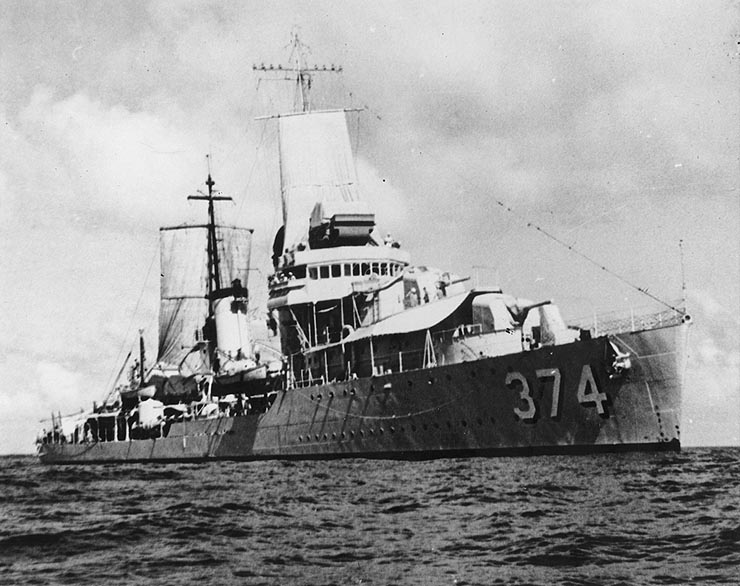 USS Tucker